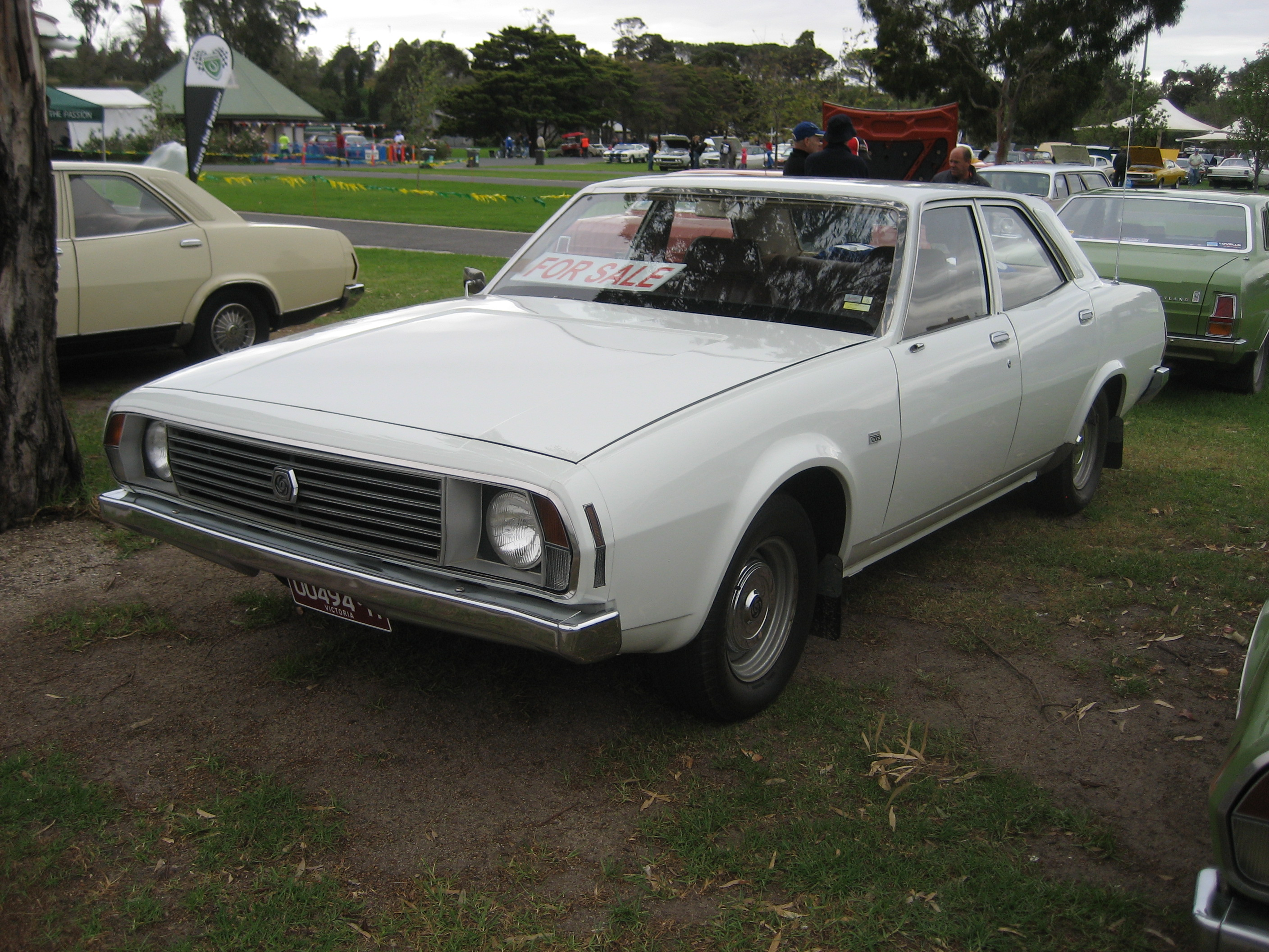 Leyland P76 Deluxe Built from 1973-75 Engines 2623cc 6 cyl or 4416 V8 Sedan available in Deluxe, Super or Executive, also limited Force 7 Coupe